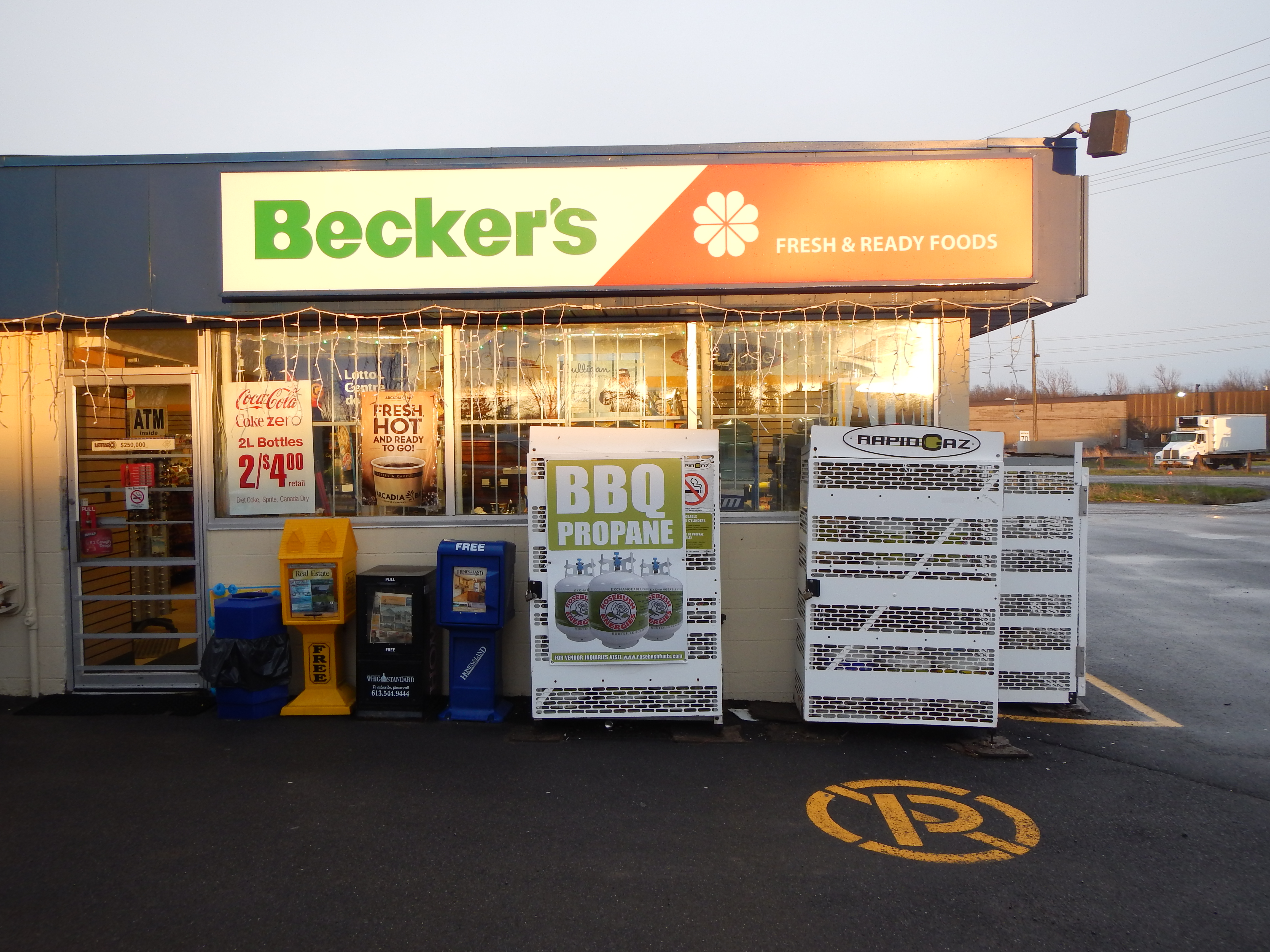 One of the last remaining stores bearing the Becker's brand in Ontario, Canada.